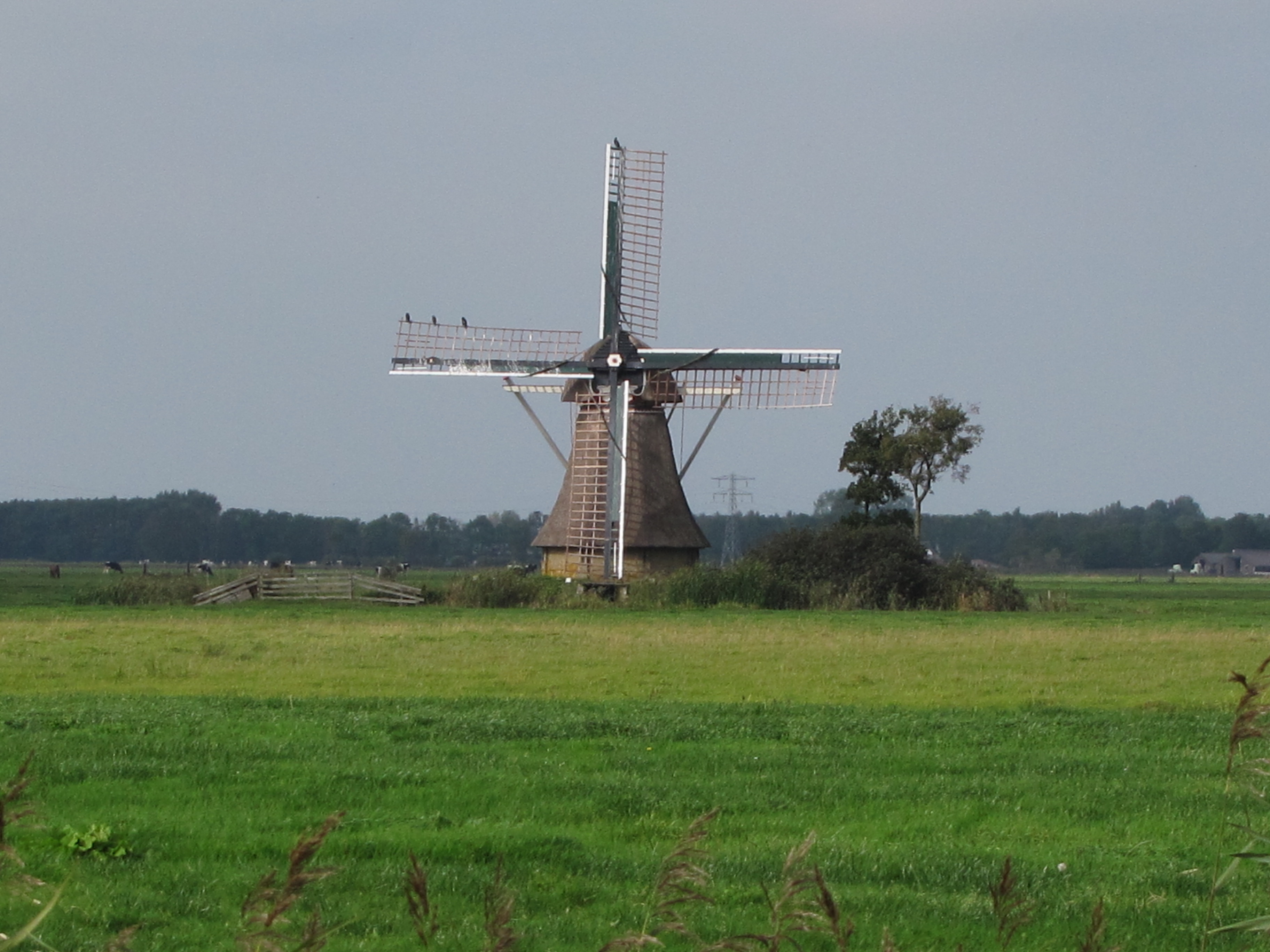 Broekster windmill near Broeksterwâld